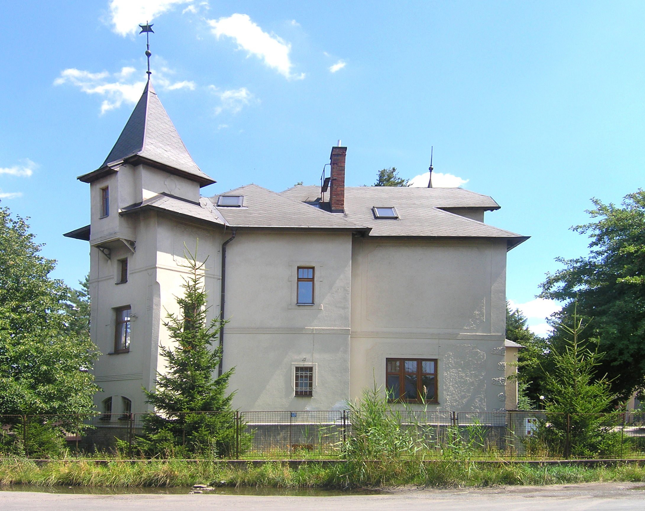 Villa at Ratbořská street at Újezd nad Lesy, Prague